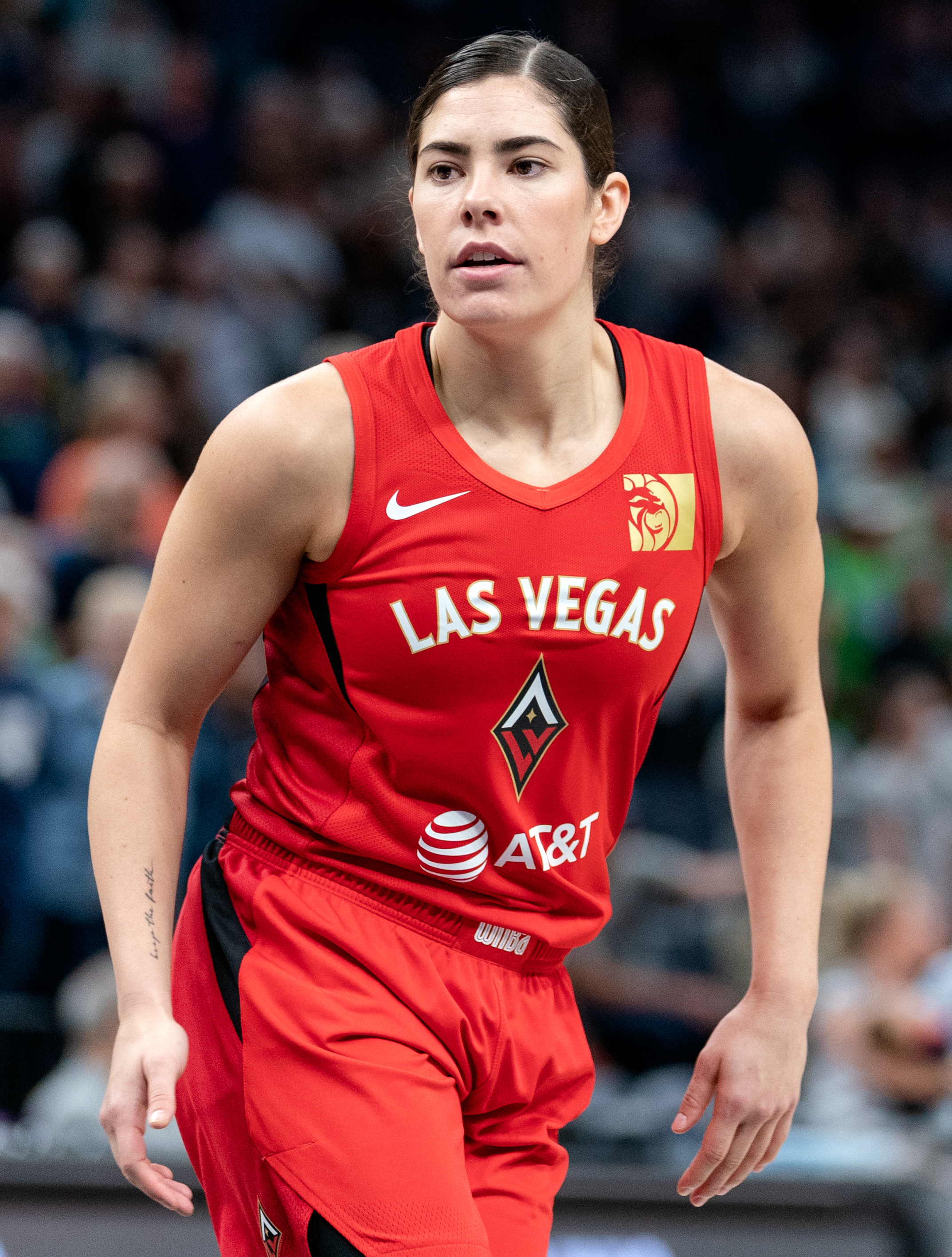 Minnesota Lynx vs Las Vegas Aces at Target Center in Minneapolis, MN on June 1 2019; the Aces won the game 80-75.